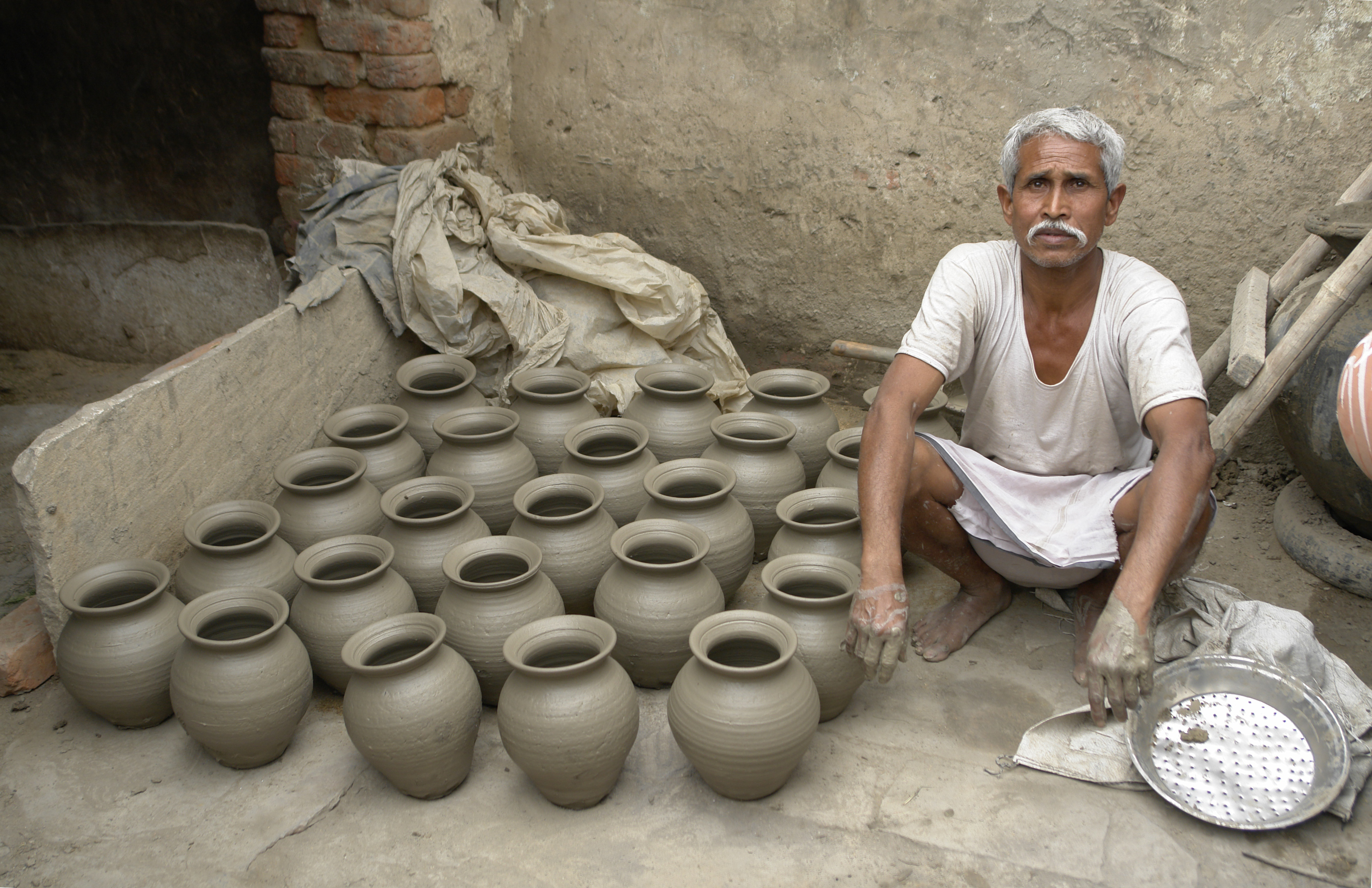 Potter and his work, Jaura, Morena district, Madhya Pradesh, India.